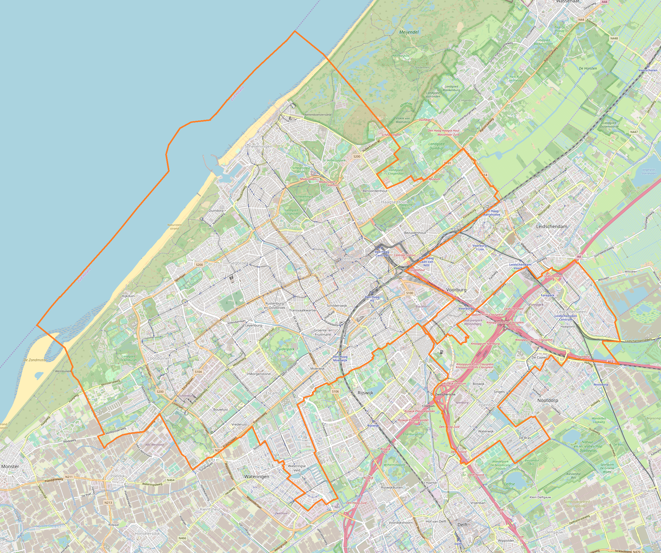 Location map